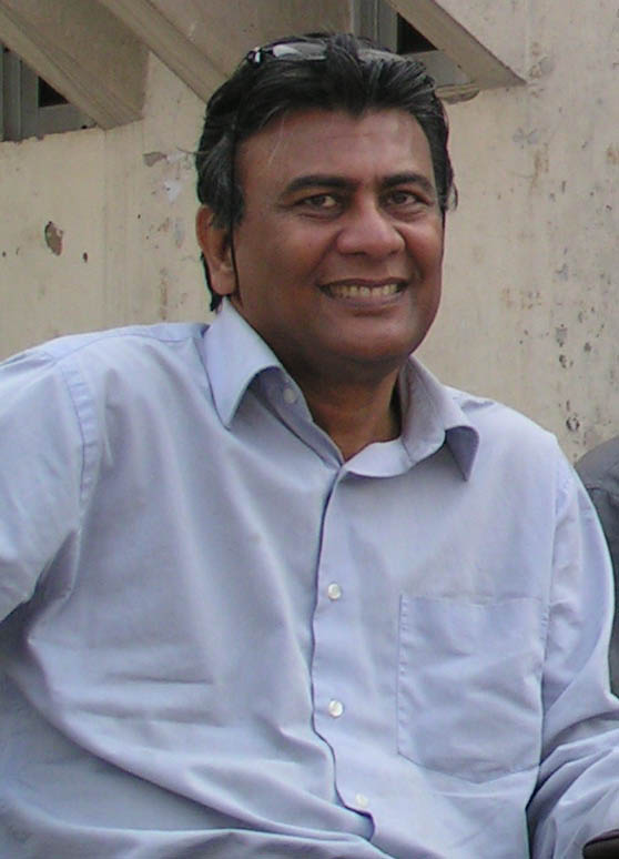 Tareque Masud at the show of his film Runway in Sylhet, 23 December, 2010.